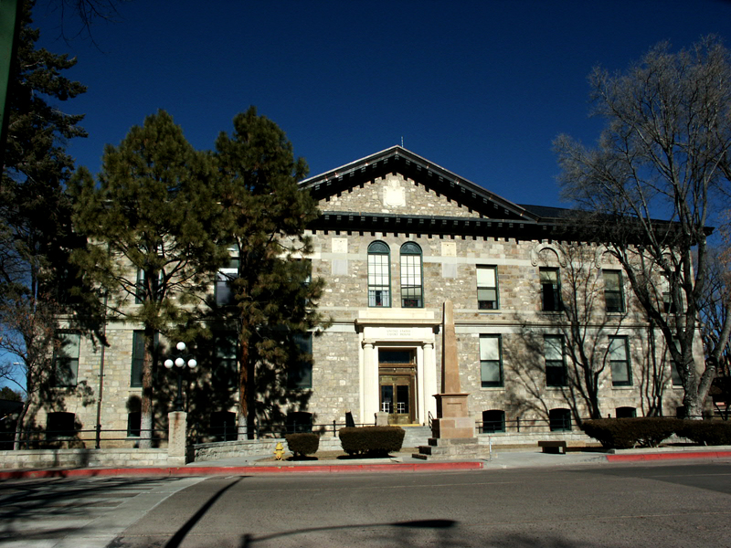 United States courthouse in Santa Fe, New Mexico. Originally intended to serve as the territorial capitol. Image:US_Courthouse_Santa_Fe.jpg by Camerafiend